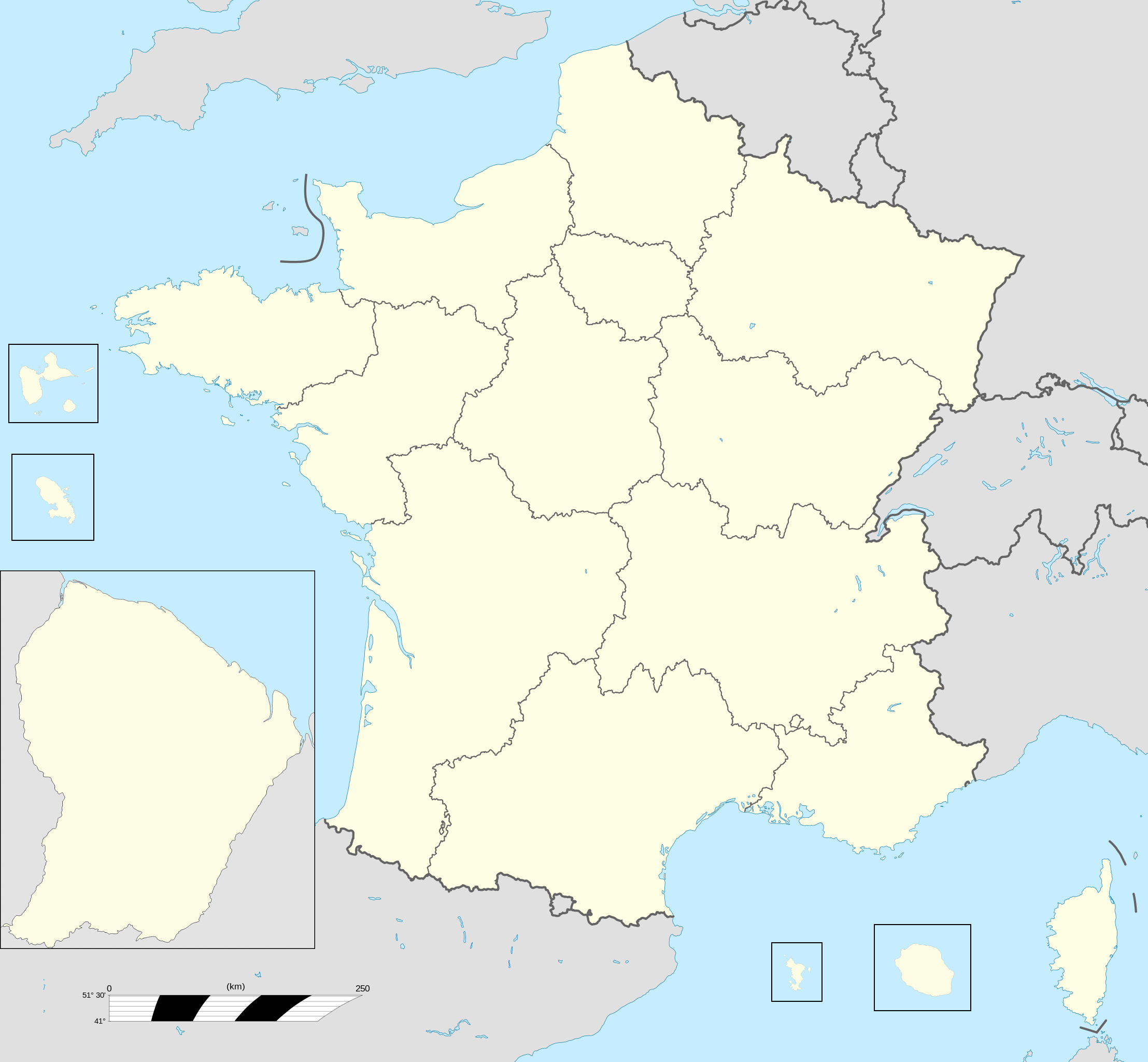 Base map of France with 18 regions.